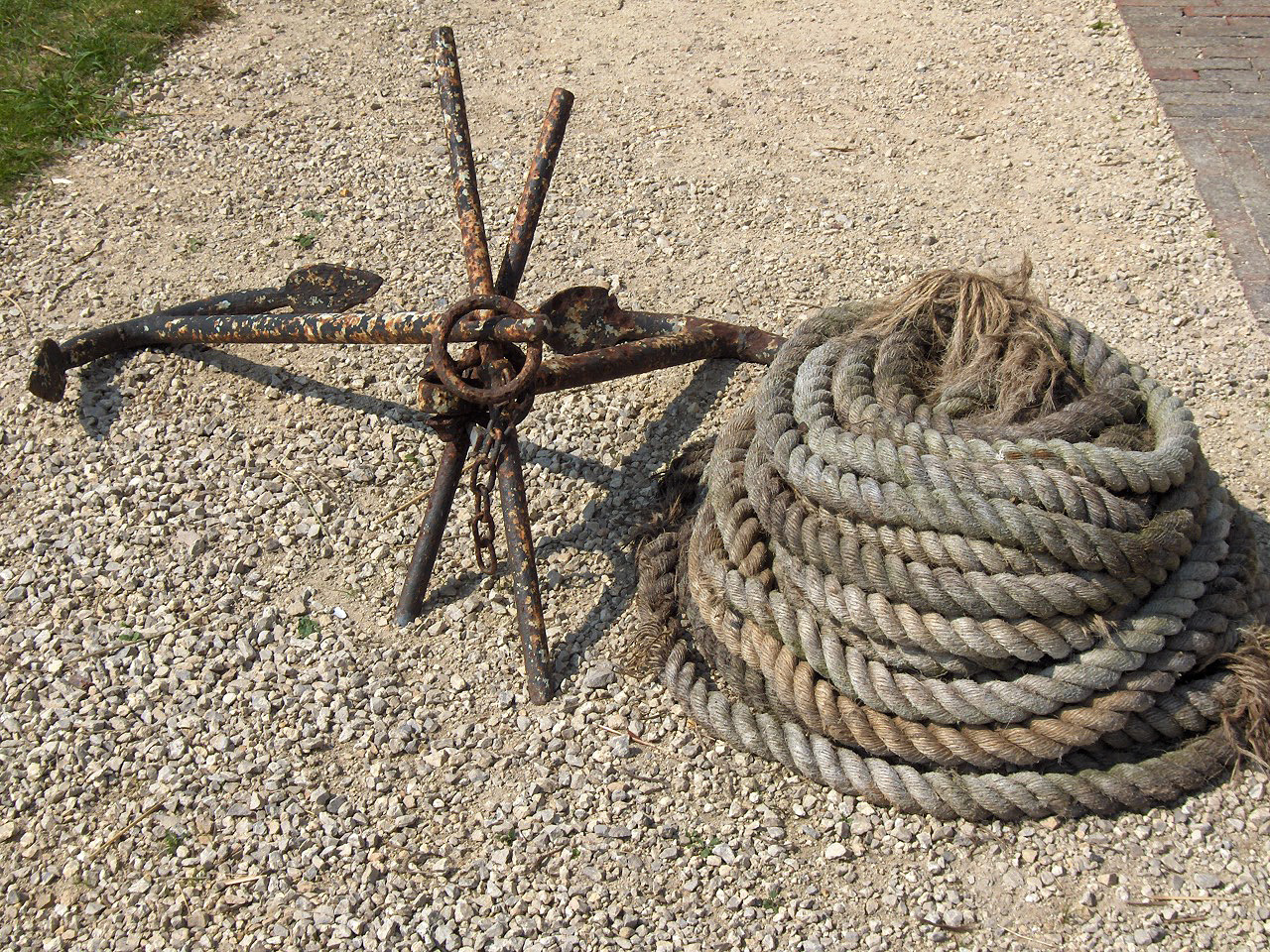 Creator claims: "Kedge with double stock; at the archeological site of Walraversijde, ca. 1465; near Oostende, Belgium" Clearly these are two Fishermans anchors together, not a single "double stocked" anchor. Furthermore these are not 15th century antiques...